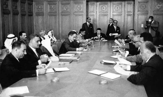 Arab heads of state in a meeting during the 1964 Arab League Summit in Cairo. Seated at the table counterclockwise: President Abdul Salam Arif of Iraq, President Gamal Abdel Nasser of Egypt, King Saud of Saudi Arabia, King Hussein of Jordan, Emir Abdullah al-Sabah of Kuwait (unseen), Crown Prince Ali Hassan of Libya, not available, King Mohammed of Morocco (unseen), President Amin al-Hafiz of Syria, President Ibrahim Abboud of Sudan, President Habib Bourghiba of Tunisia, President Ahmed Ben Bella of Algeria, Chairman Ahmed Shukeiri of the Palestine Liberation Organization.